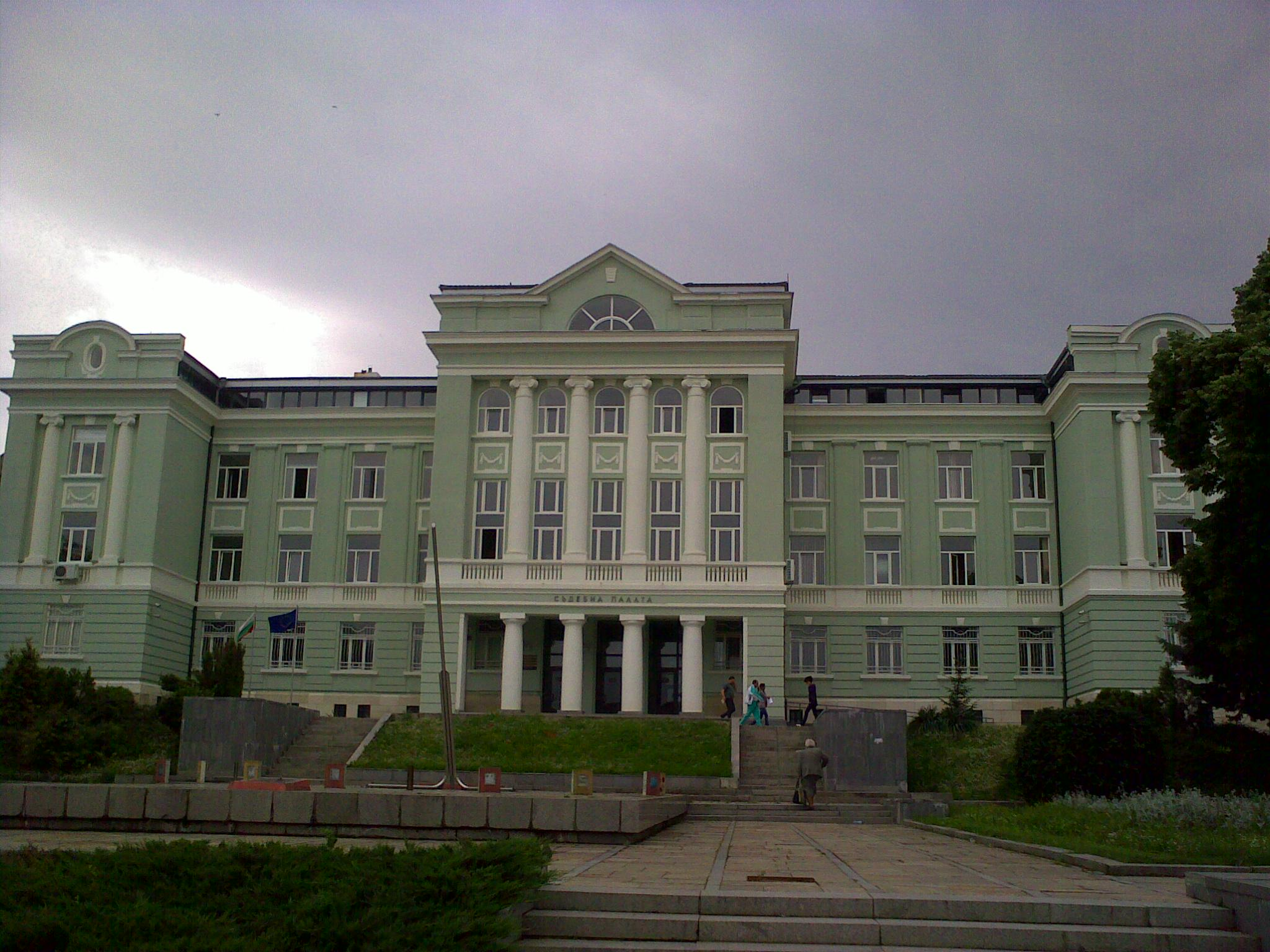 The Courthouse in Shumen